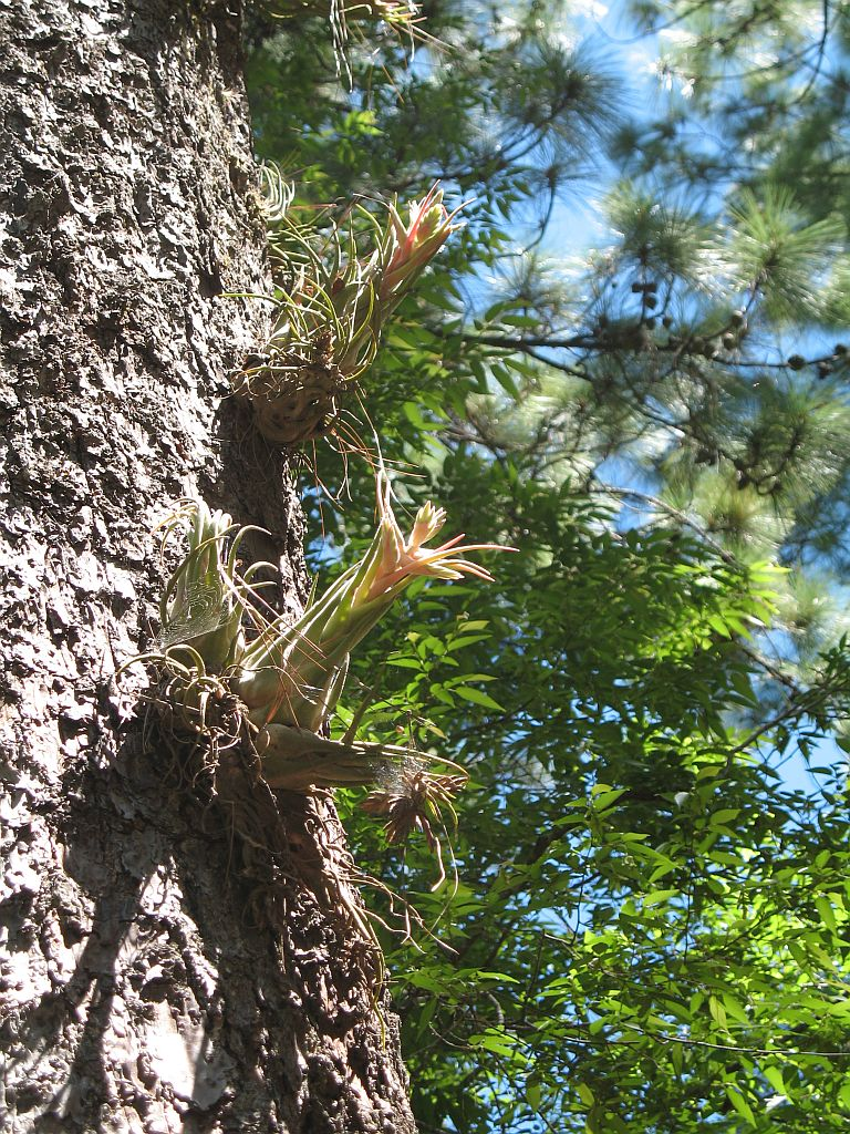 Tillandsia seleriana in habitat in El Salvador, Dept. Santa Ana, Parque Nacional Montecristo; 1231m.